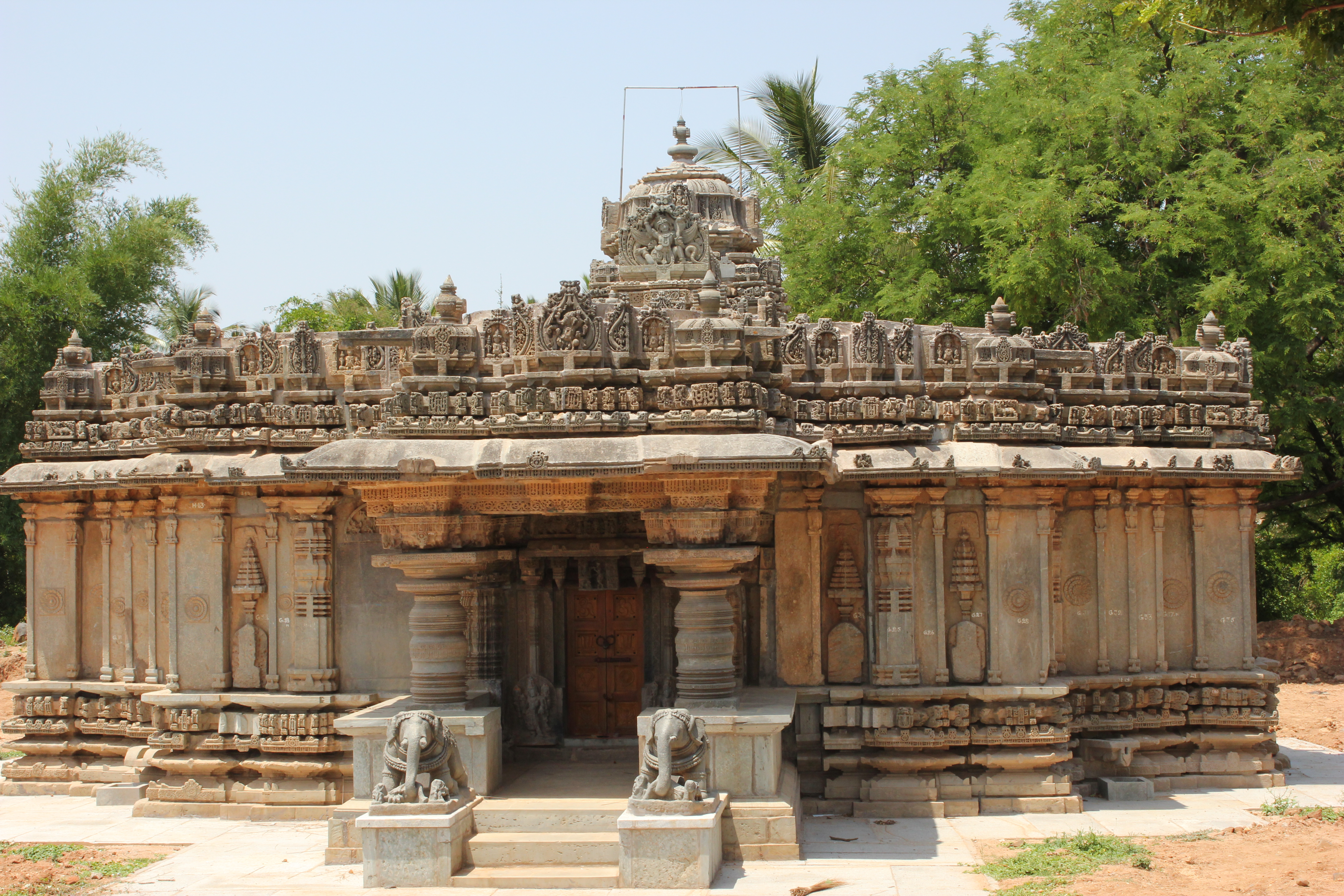 This photo was taken by me (Dinesh Kannambadi) at the Lakshmi Narasimha temple in Vignasante, Tumkur district, Karnataka state, India. It was built in 1286 CE during the rule of the Hoysala Empire King Narasimha III.